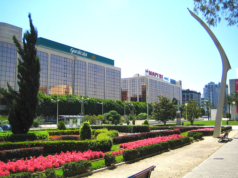 Albereda avenue, Valencia, Spain